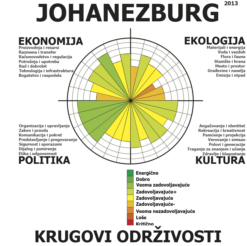 Profil Johanezburga, nivo 2, 2013.